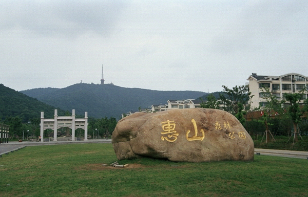 Huishan forest park gateway, taken via Seagull SLR and FujiColor ProPlusII film